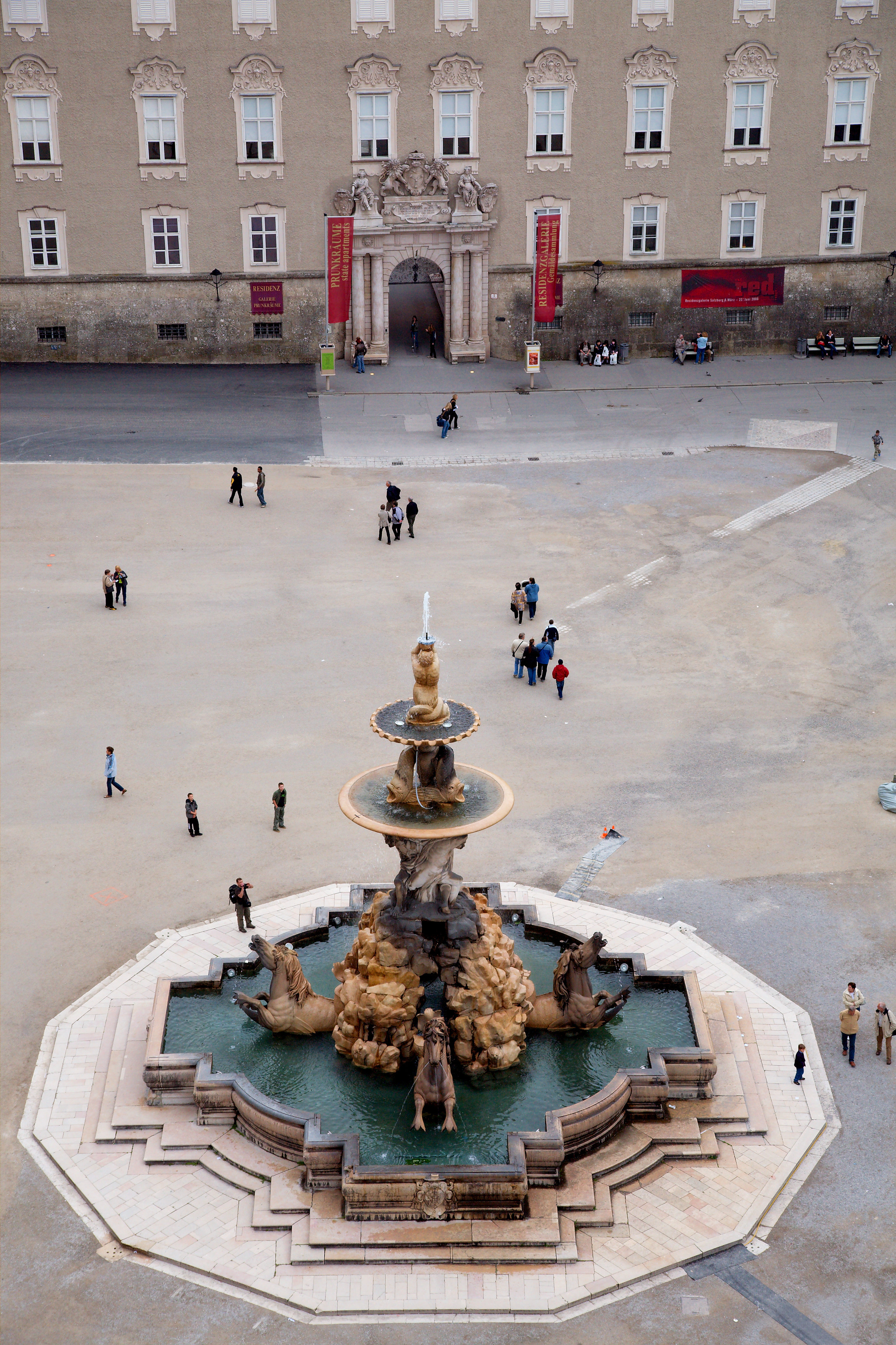 Fountain at Residenzplatz.